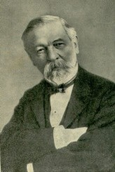 Heinrich Fiby (1834-1917), conductor and music school director in Znojmo